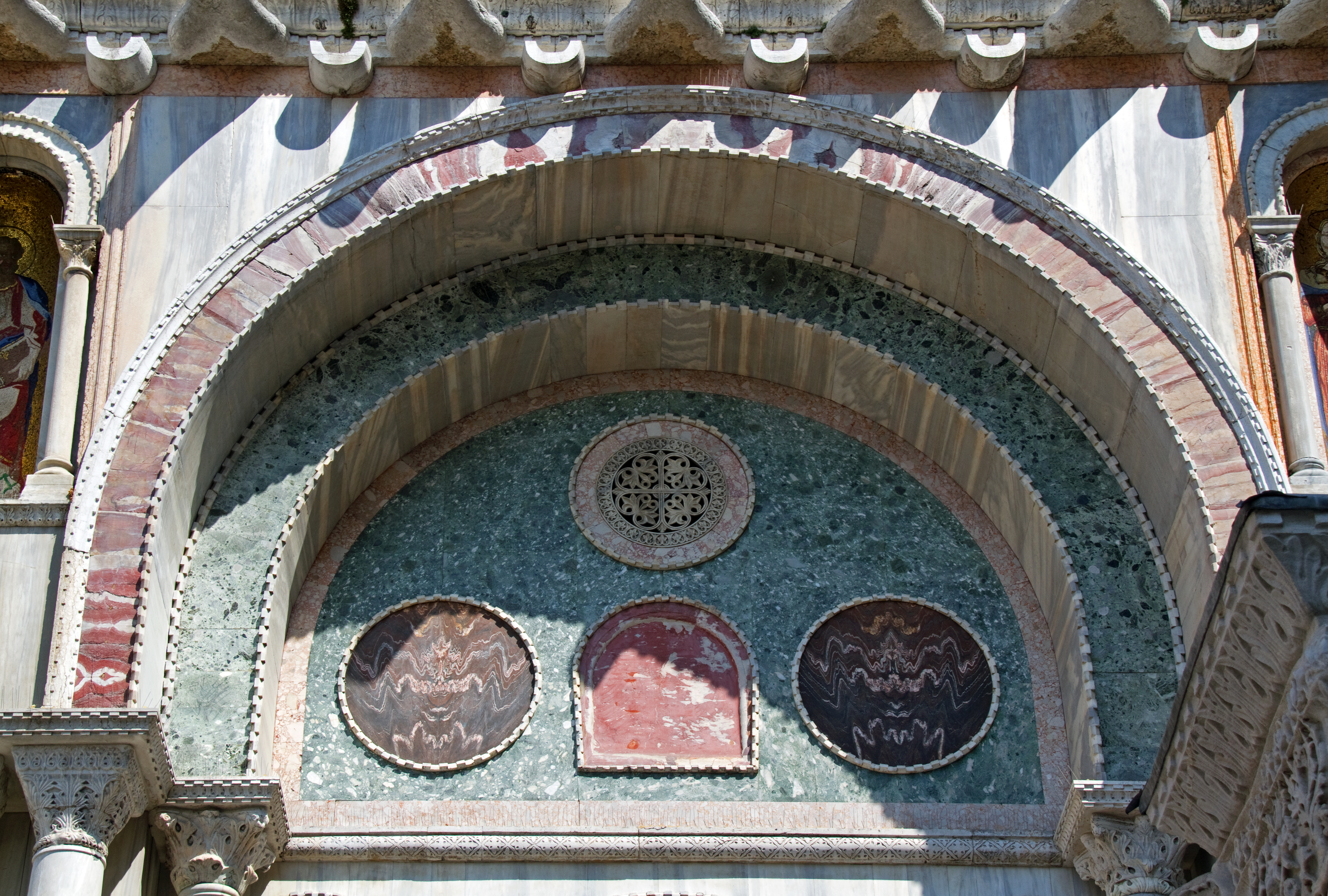 St Mark's Basilica 15